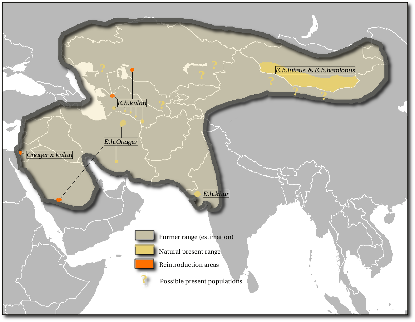 Map of former and present range of different subspecies of Equus hemionus.